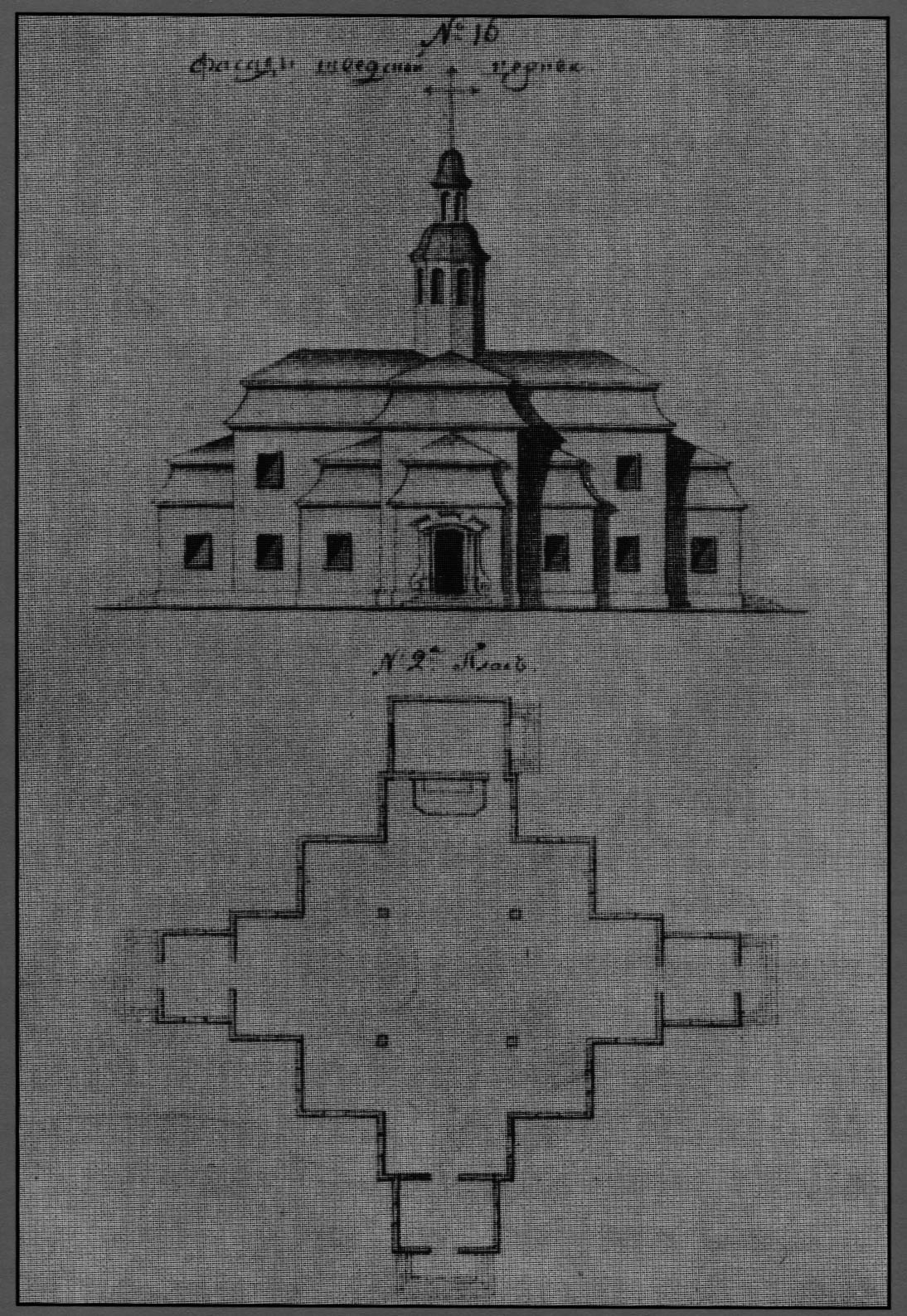 Drawing of plan and facade of Elisabet Church, Hamina, Finland, 1751.